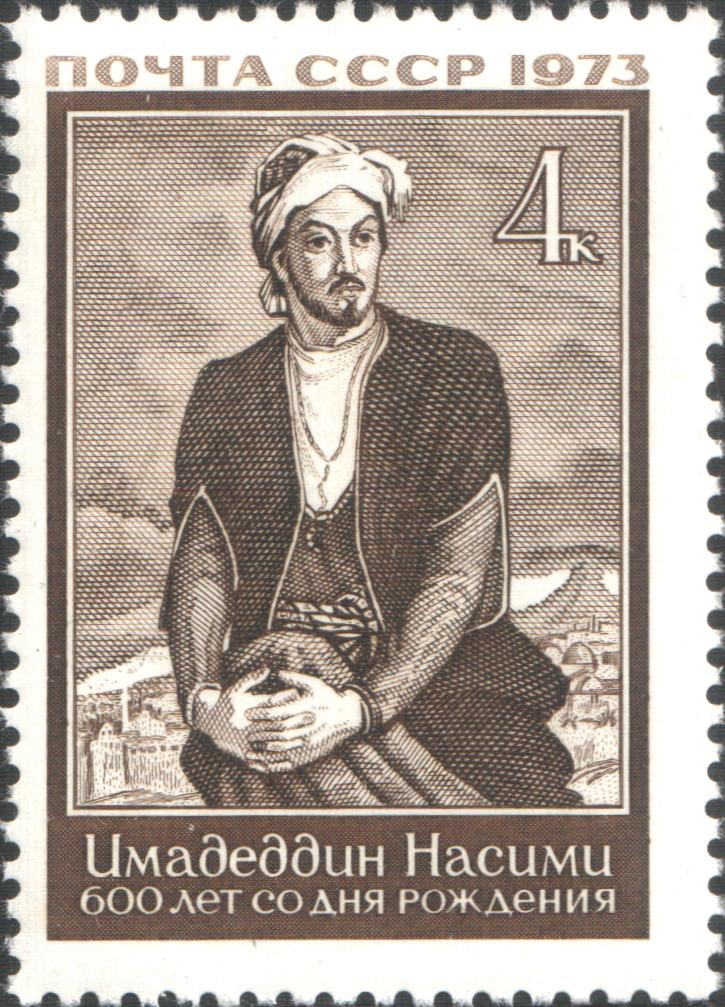 USSR stamp, I. Nasimi, 1973, 4 k.